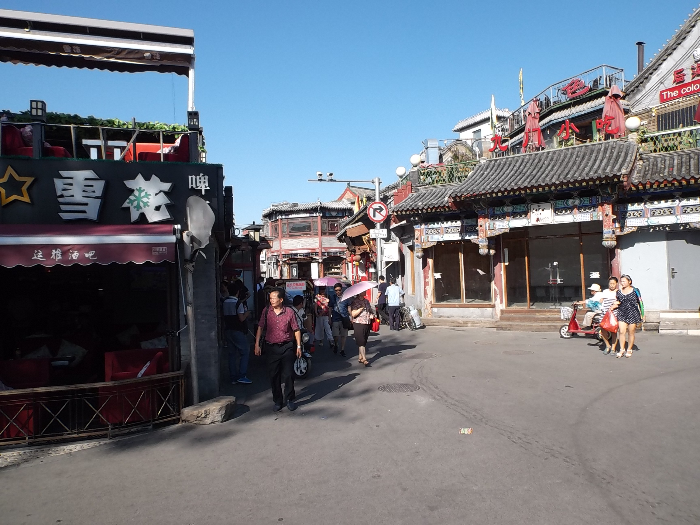 Xiaoshibei Hutong at Houhai Lake in Beijing, 4.9.2014